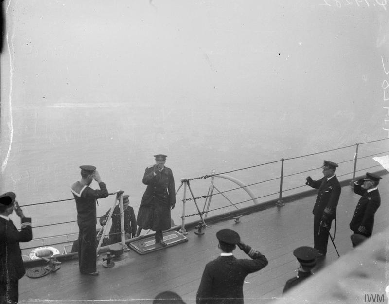 The Surrender of the German High Seas Fleet, November 1918 German Rear Admiral Otto Maurer and the German delegation arrive on board HMS QUEEN ELIZABETH flagship.